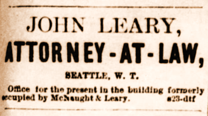 John Leary's ad in Seattle Post Intelligencer, 1878